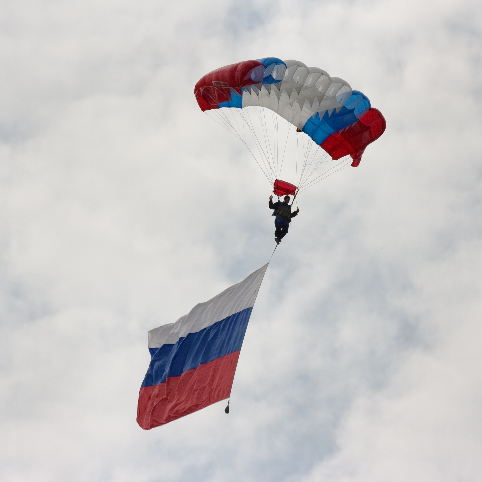 Parachuting with Russian flag